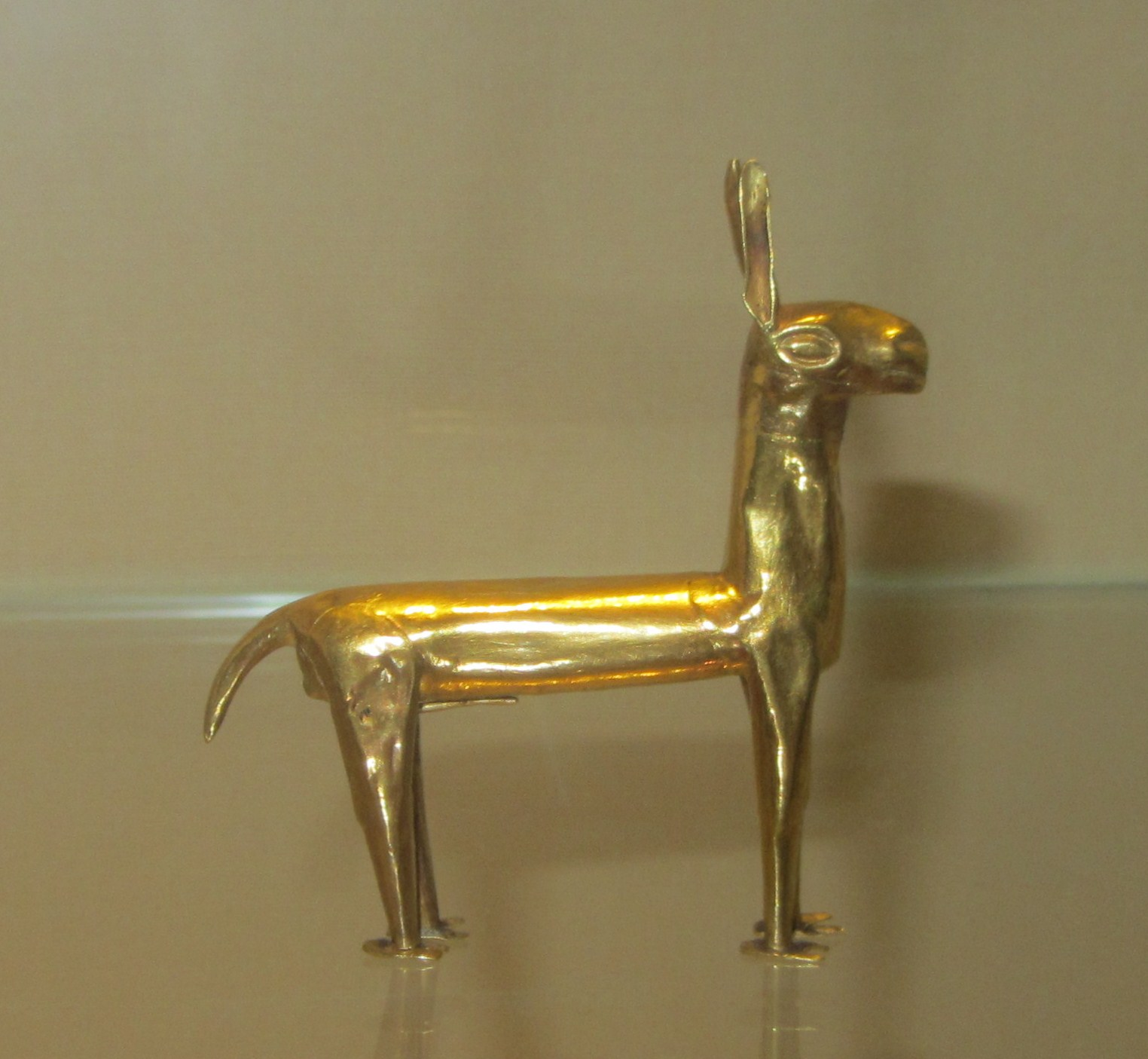 Miniature gold llama figurine, Peru, Inca, about AD 1500. British Museum (Am1921,0721.1).